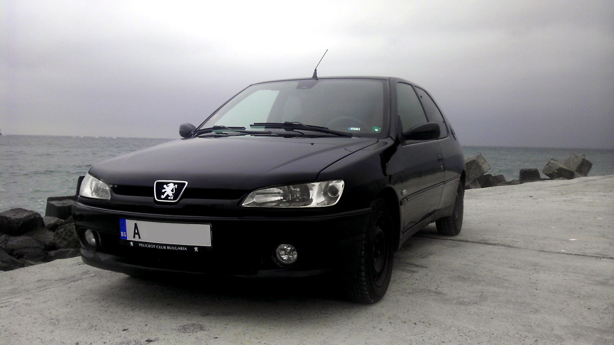 Front view of Peugeot 306 Phase 3 XS HDi